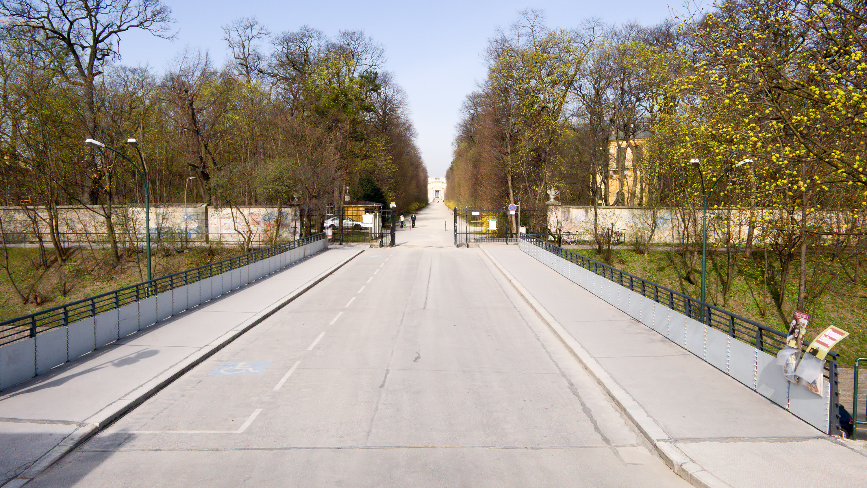 Bridge Tivolibrücke (Wien) in Vienna Hietzing